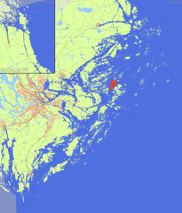 Location of the island Möja